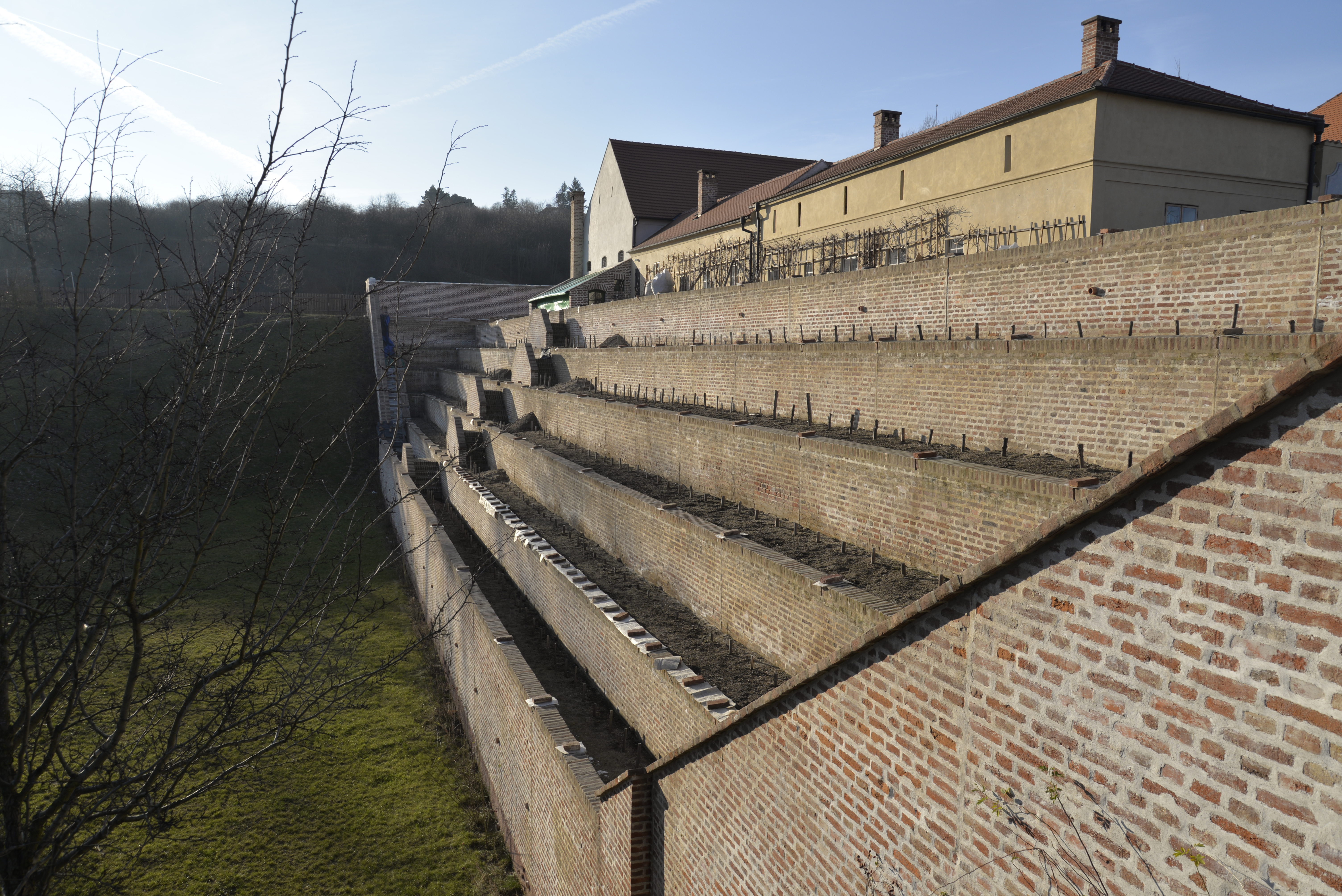 Homestead Kotlářka, vineyard, Na Kotlářce 16/9, Dejvice, Praha